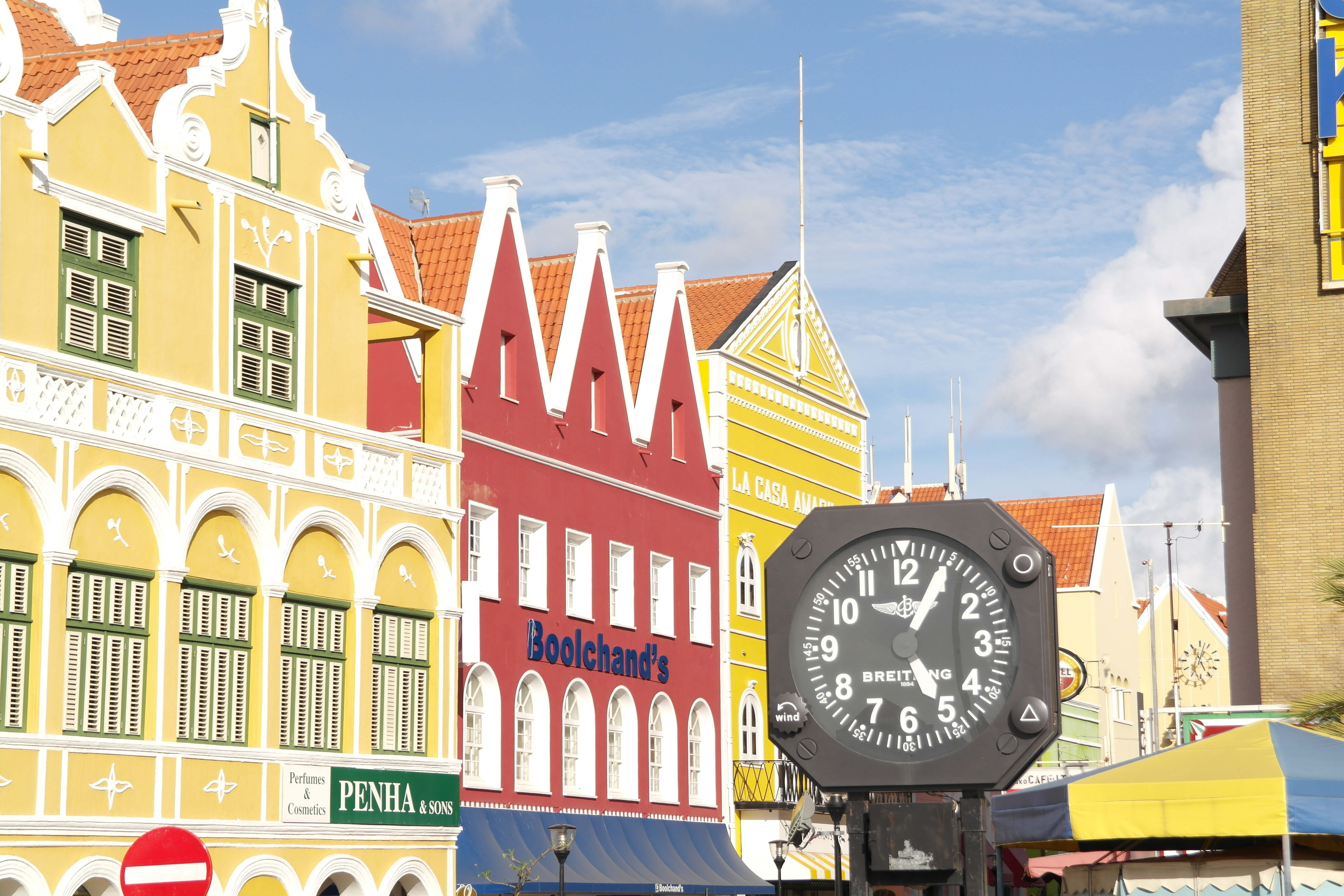 Colourful houses Punda